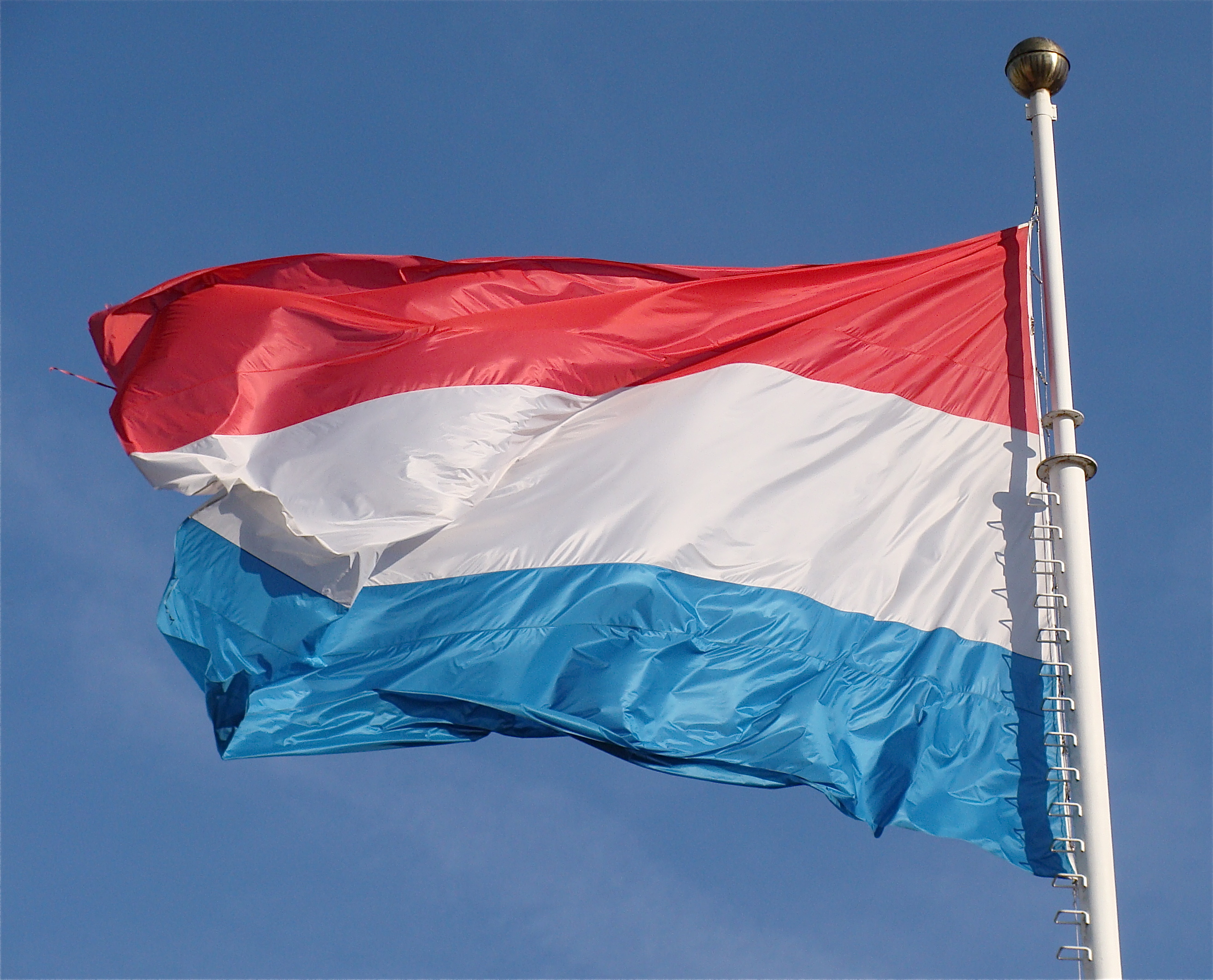 The great flag in Luxembourg city Ślůnski: Wjelgo fana Luksymburga